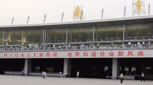 社会主义荣辱观, Eight Do's and Don'ts